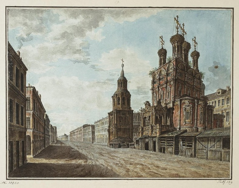 en: Fedor Alekseev Title